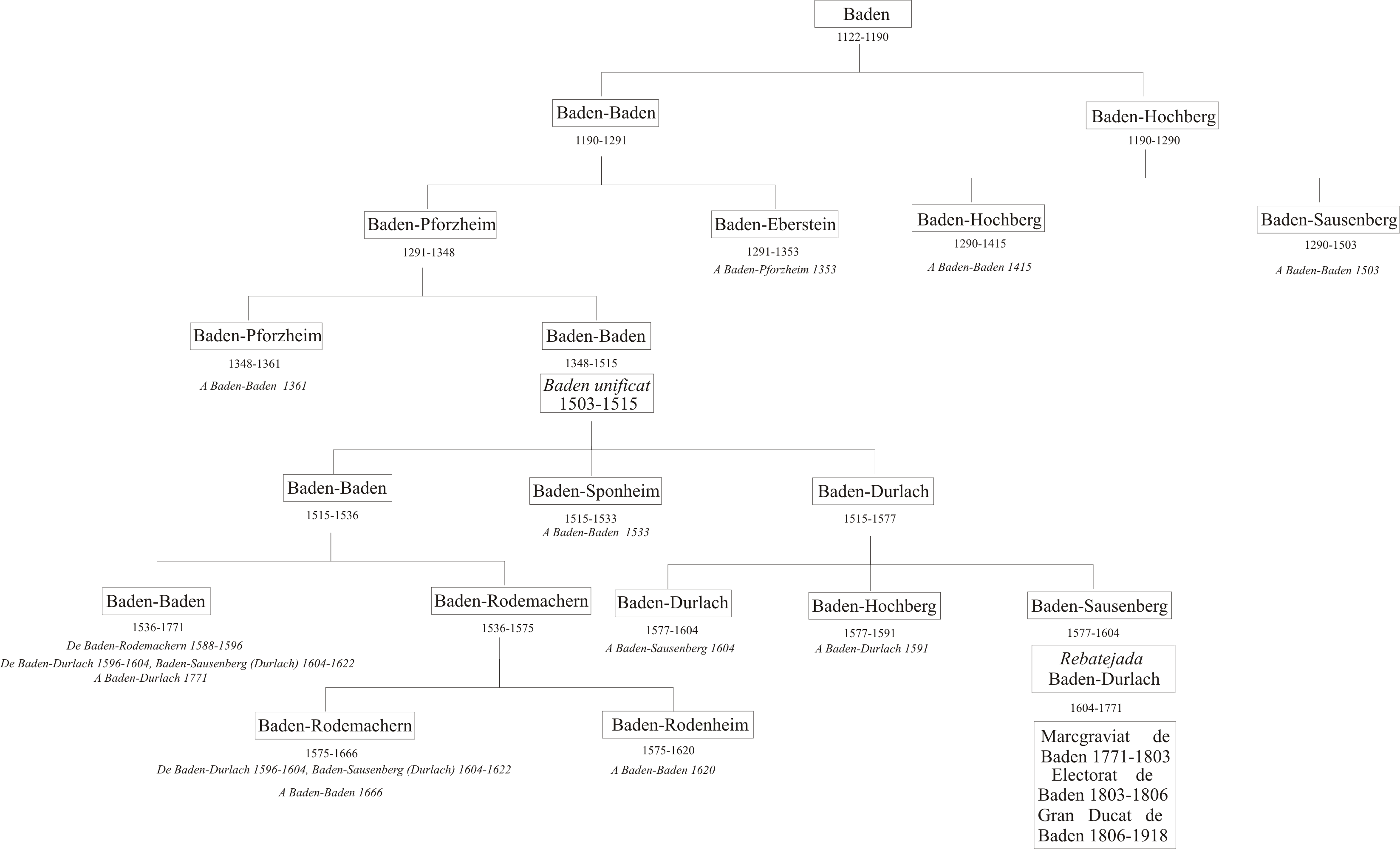 Baden lines